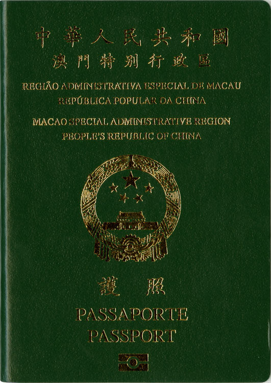 Biometric passport of Macau